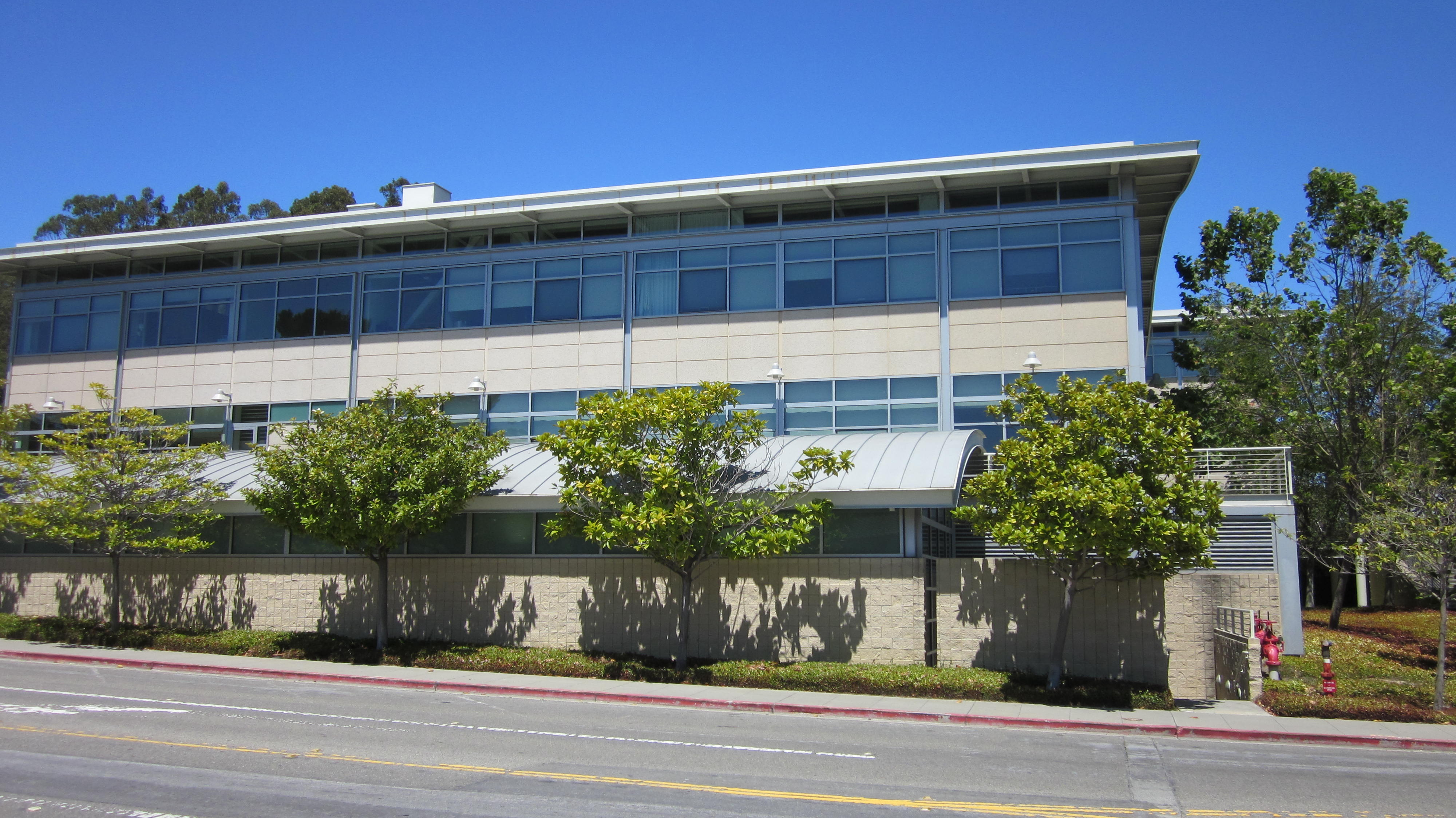 YouTube headquarters in San Bruno, California.